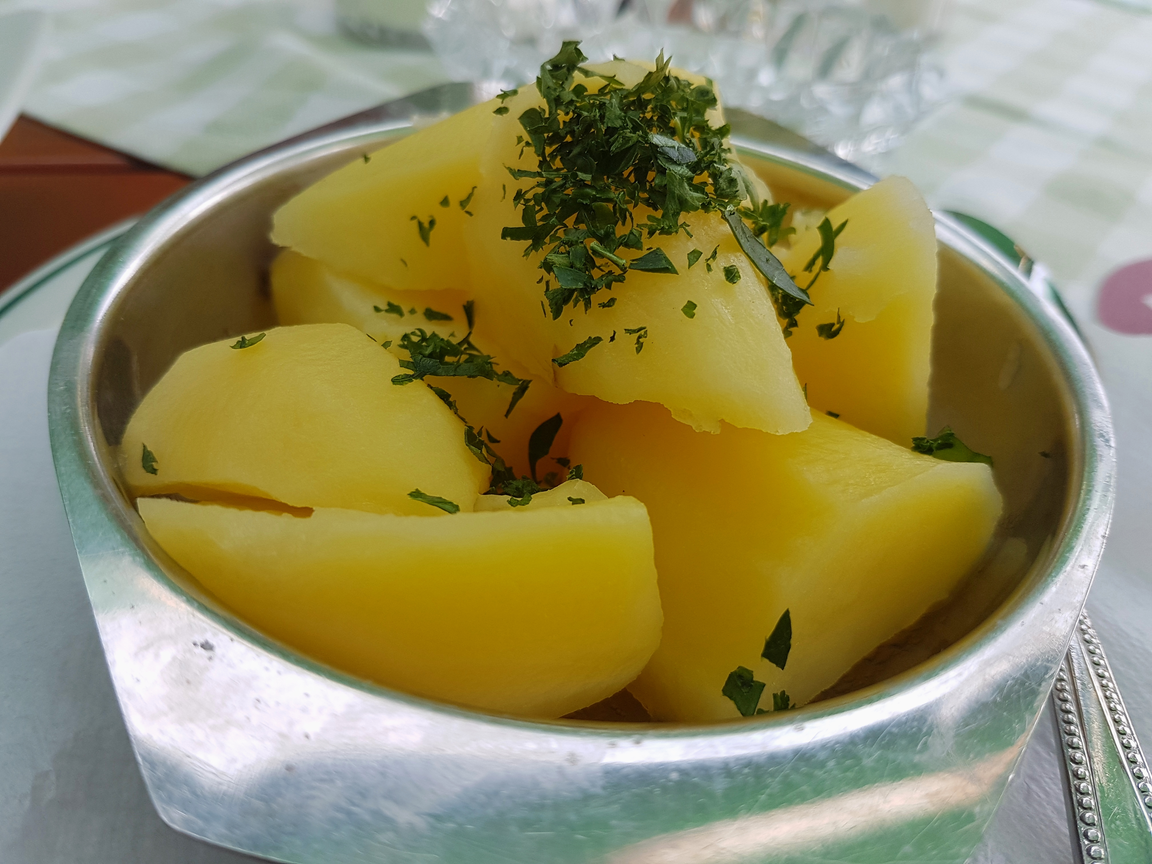 Boiled potatoes as a side dish. Decorated with parsley. Photographed in the Gasthof zum Edlhof in Obernzell.